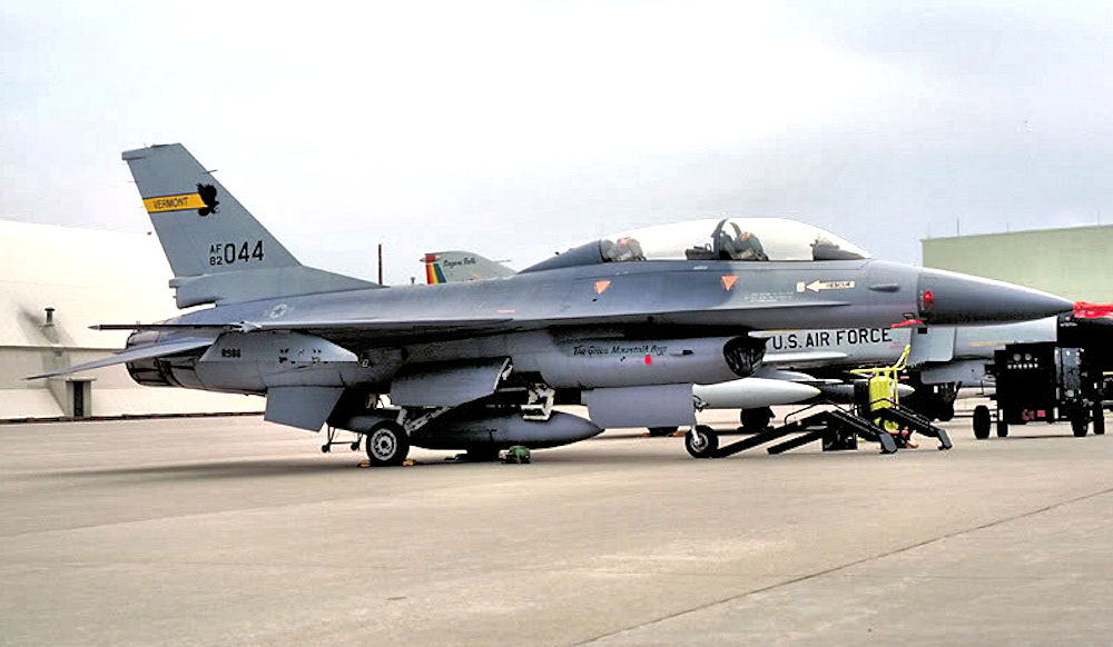 134th Fighter-Interceptor Squadron - General Dynamics F-16B Block 15N Fighting Falcon 82-1044 Retired to AMARC by Nov 1994 as FG279. Later sold to Jordan, Peace Falcon, as RJAF s/n 234